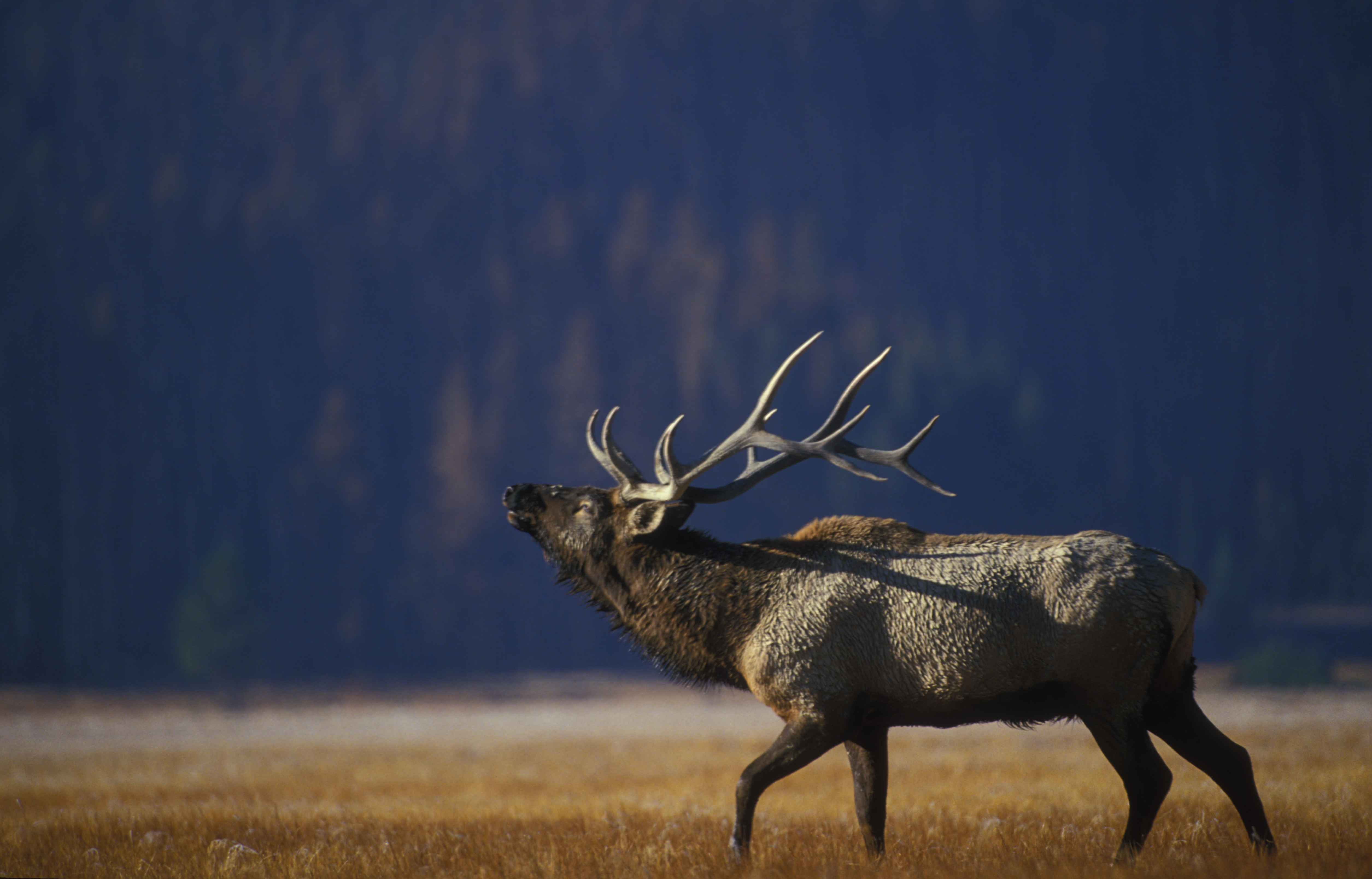 Image title: Bull elk bugling in the gibbon meadow in the yellowstone national park Image from Public domain images website